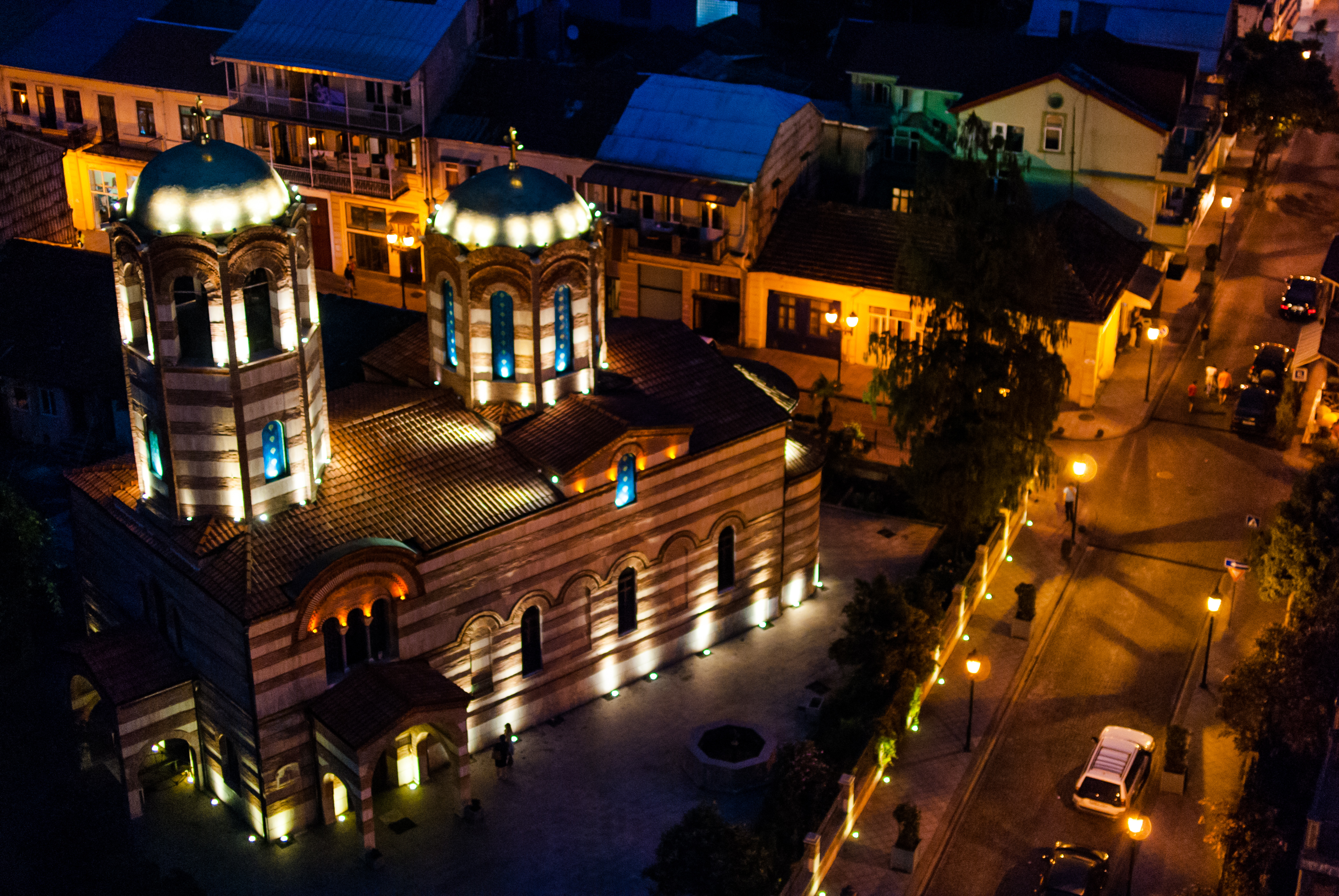 Georgian Orthodox Church in Batumi, Georgia